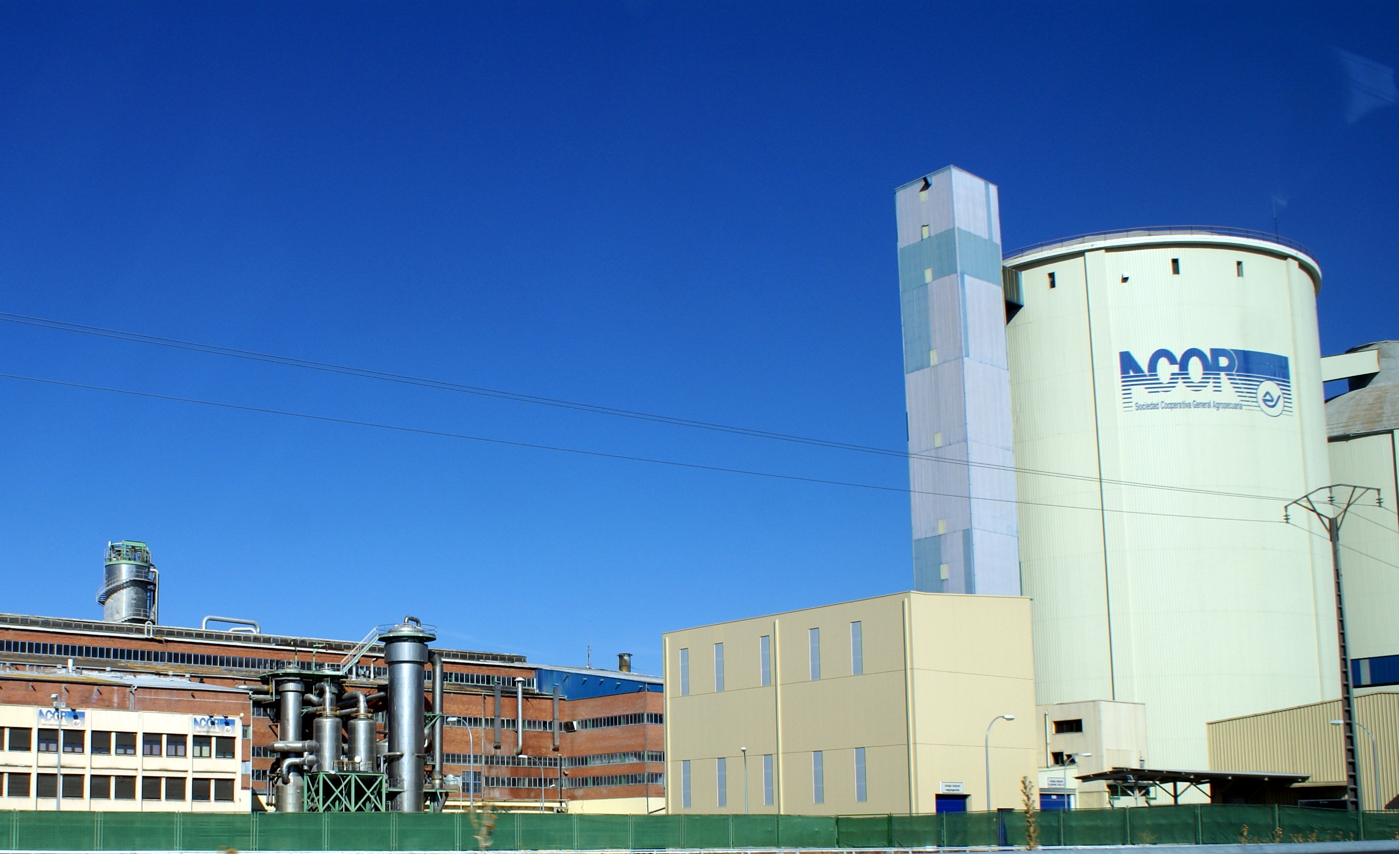 Sugar refinery in Olmedo, Valladolid, Spain.